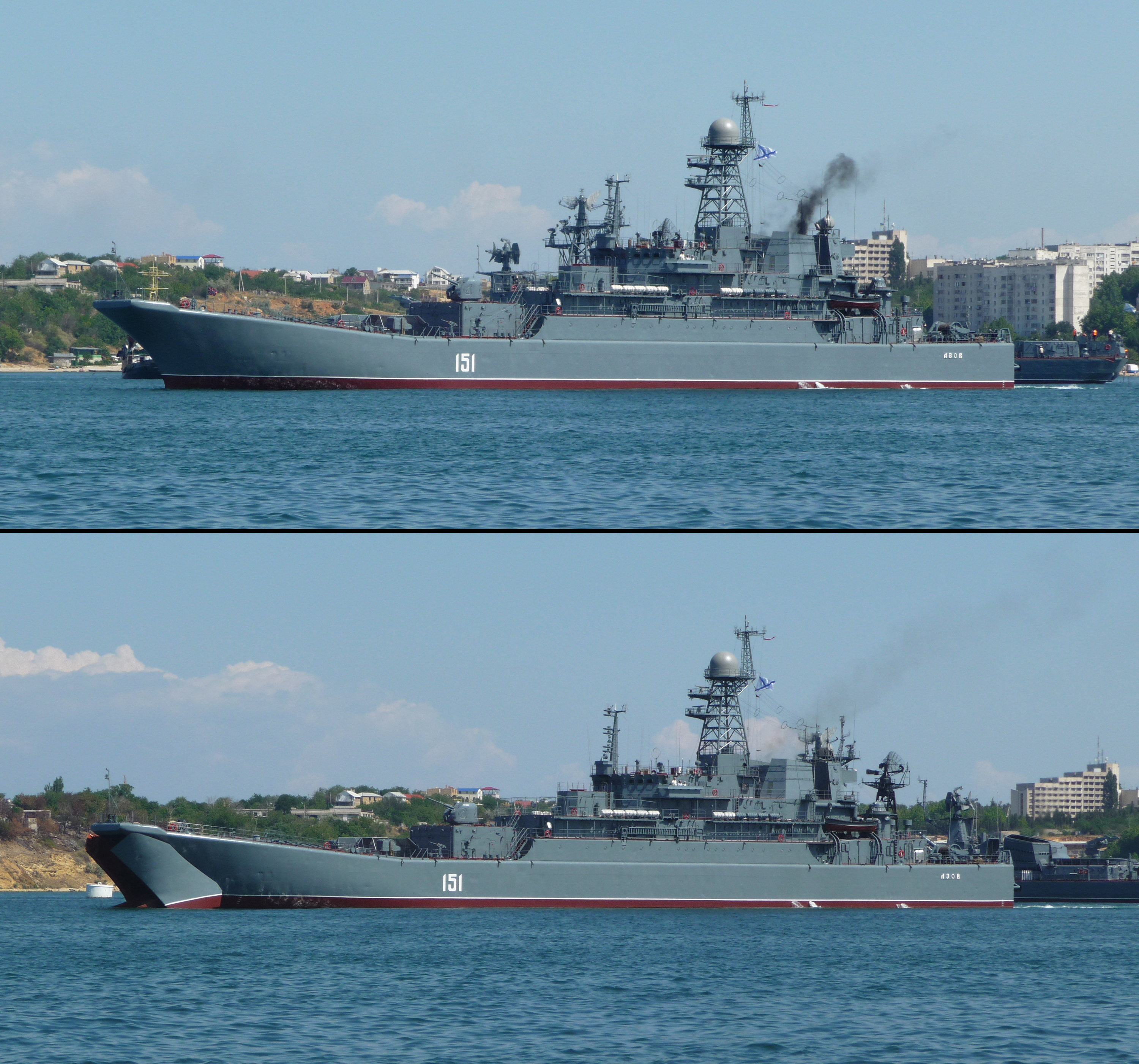 Project 775M Ropucha-II class russian tank landing ship Azov. Photo at bottom shows this warship with open doors. Photos taken in Sevastopol bay.